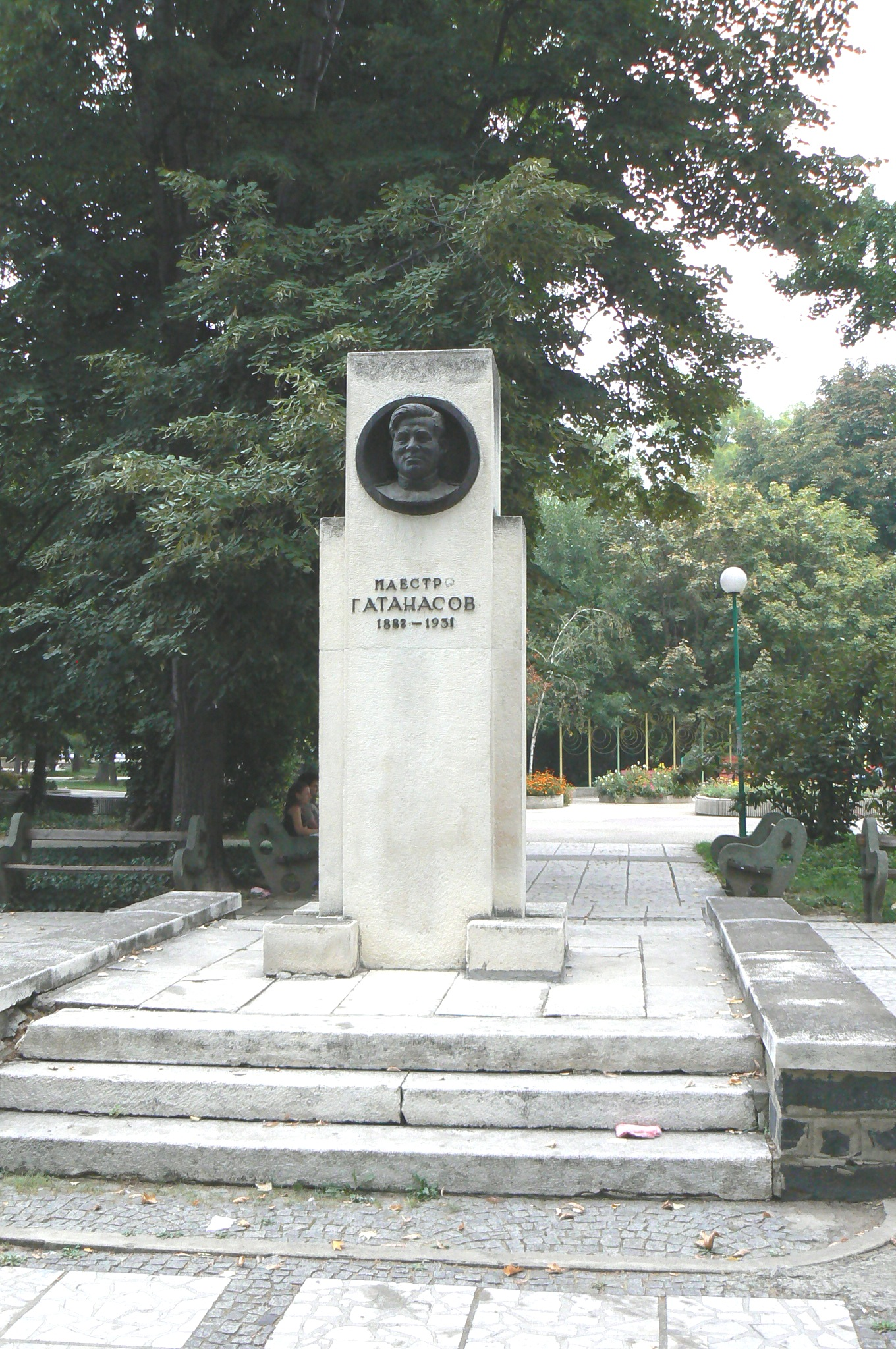 Bas-relief of Maestro Georgi Atanasov, Pazardzhik, Bulgaria